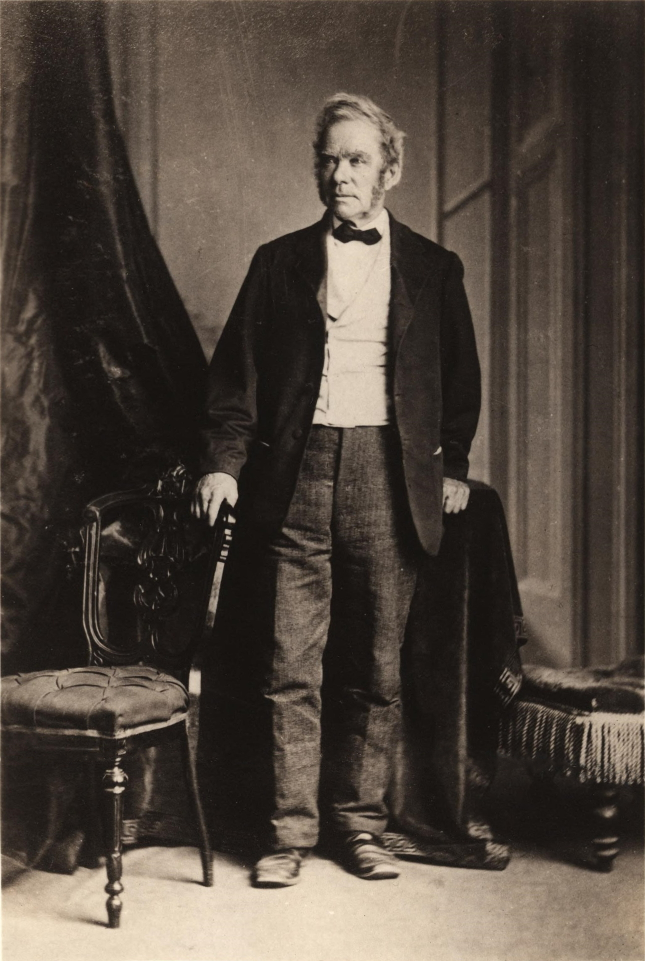 Image of Josiah Warren